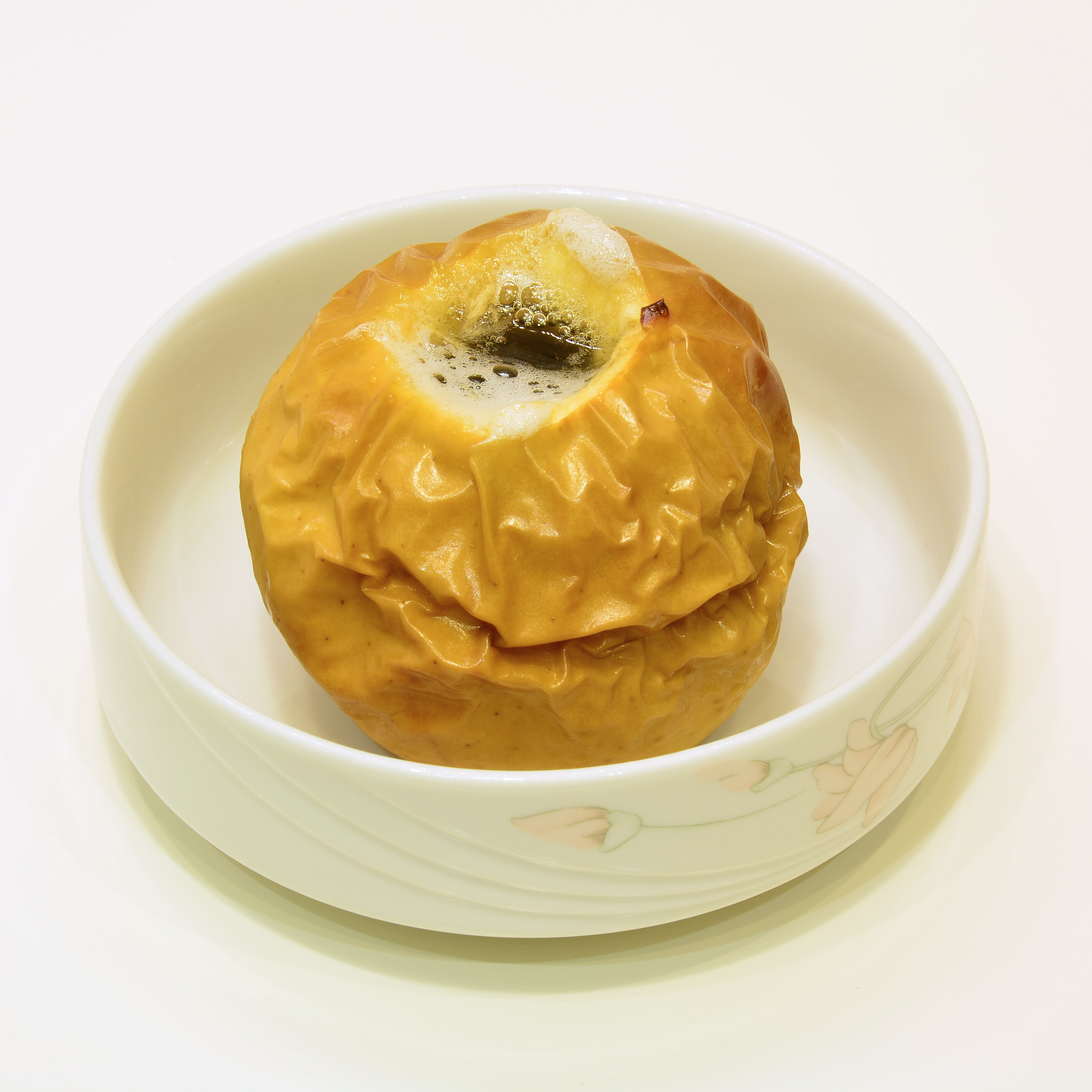 Freshly baked apple filled with prunes and honey.